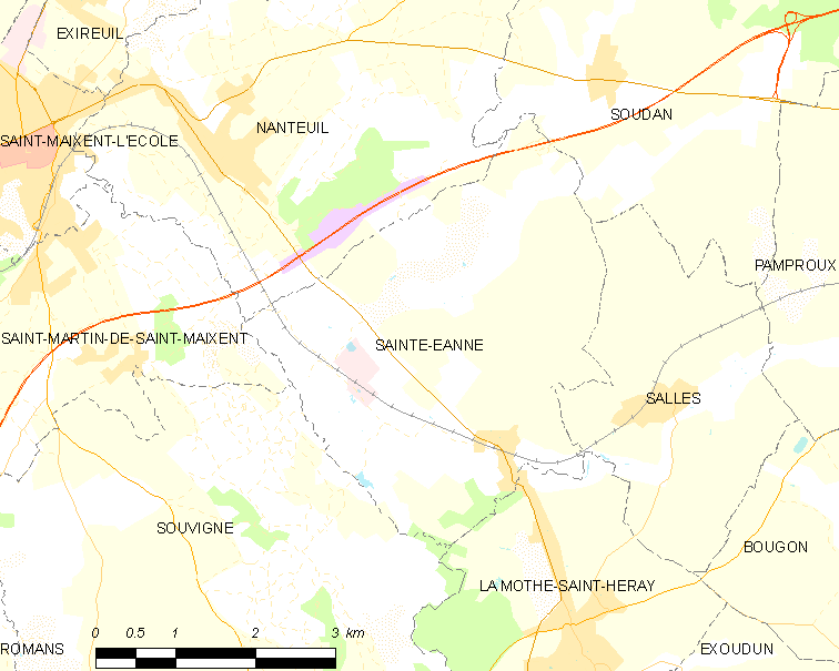 Map of French municipality Sainte-Eanne